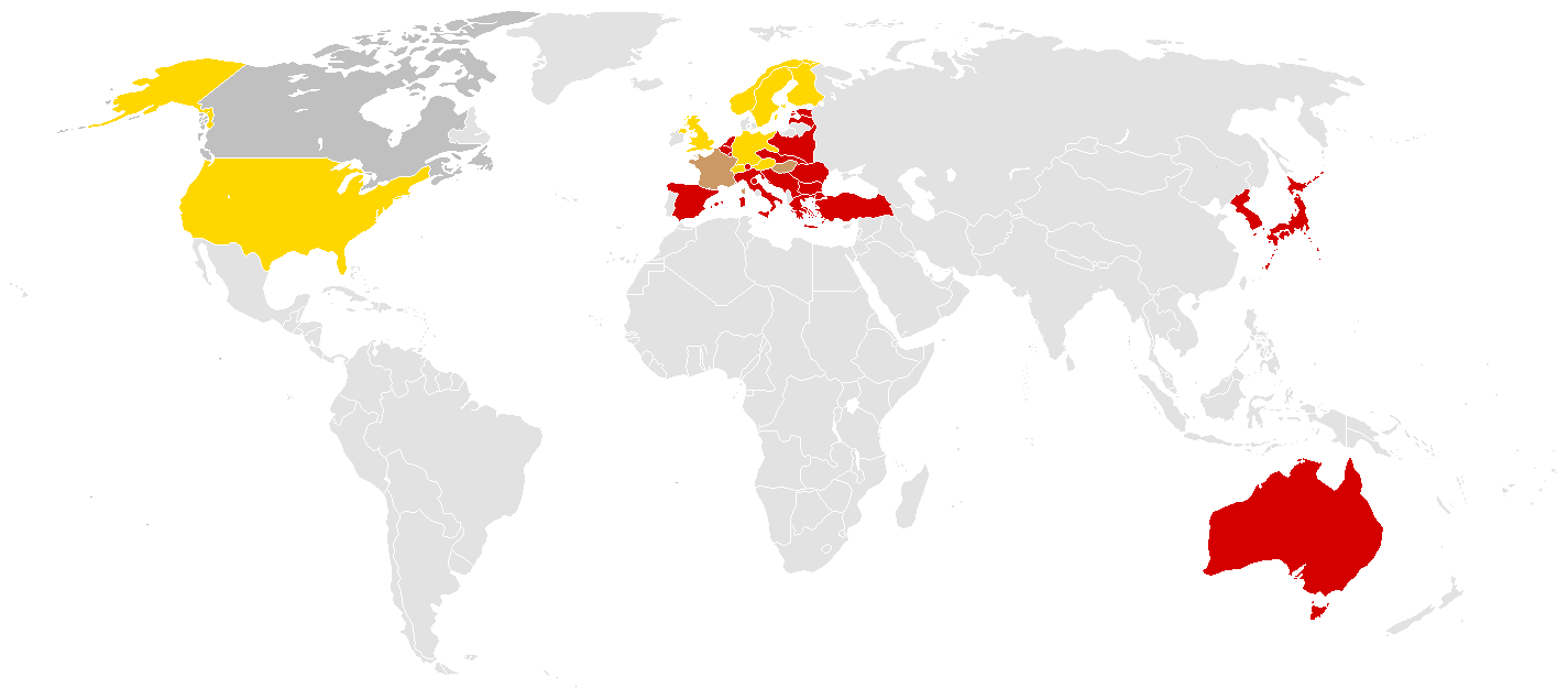 Countries with at least one gold medal Countries with at least one silver medal Countries with at least one bronze medal Countries that didn't get any medal Countries that did not participate